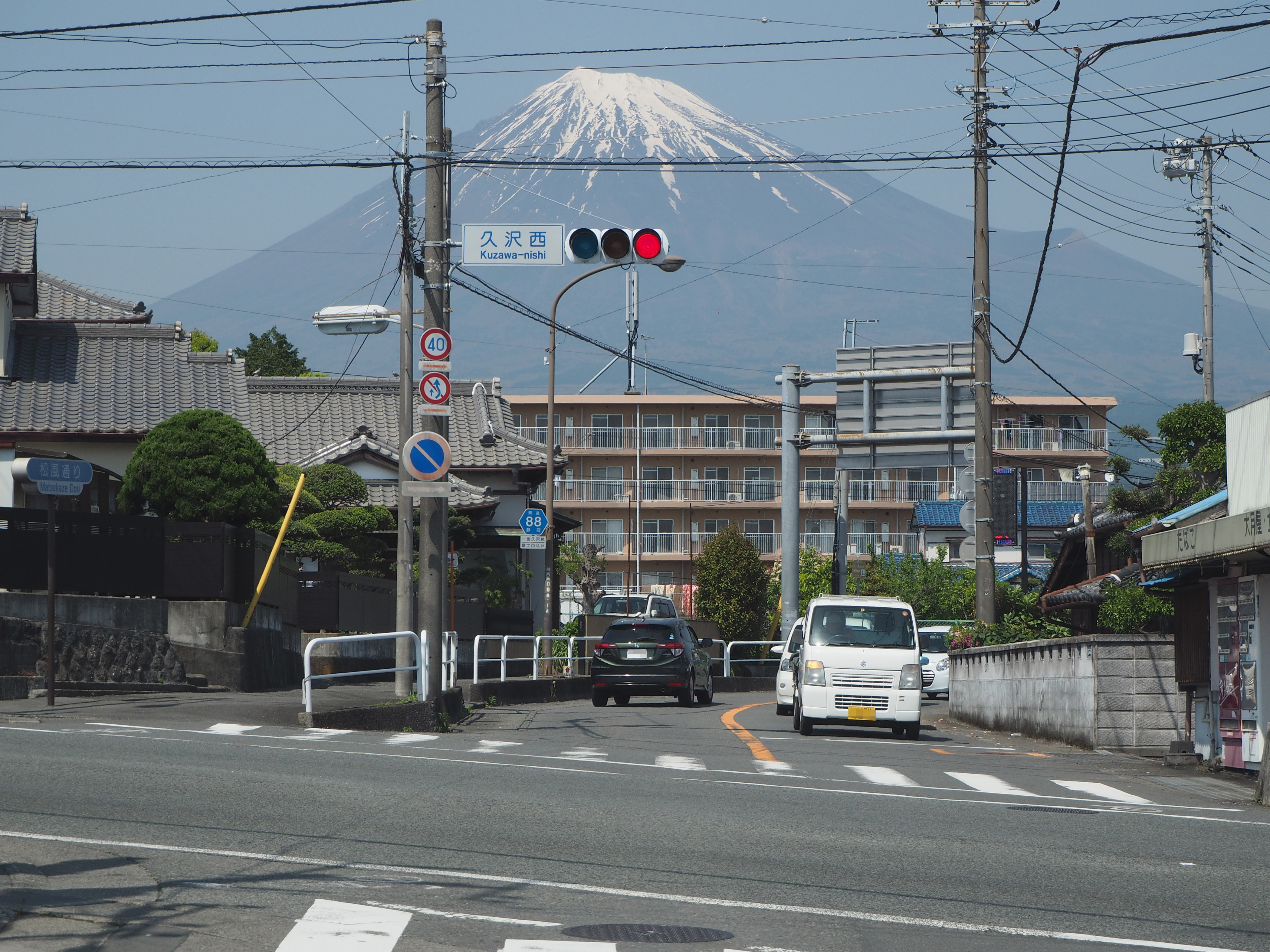 Shizuoka prefectural road Route 88